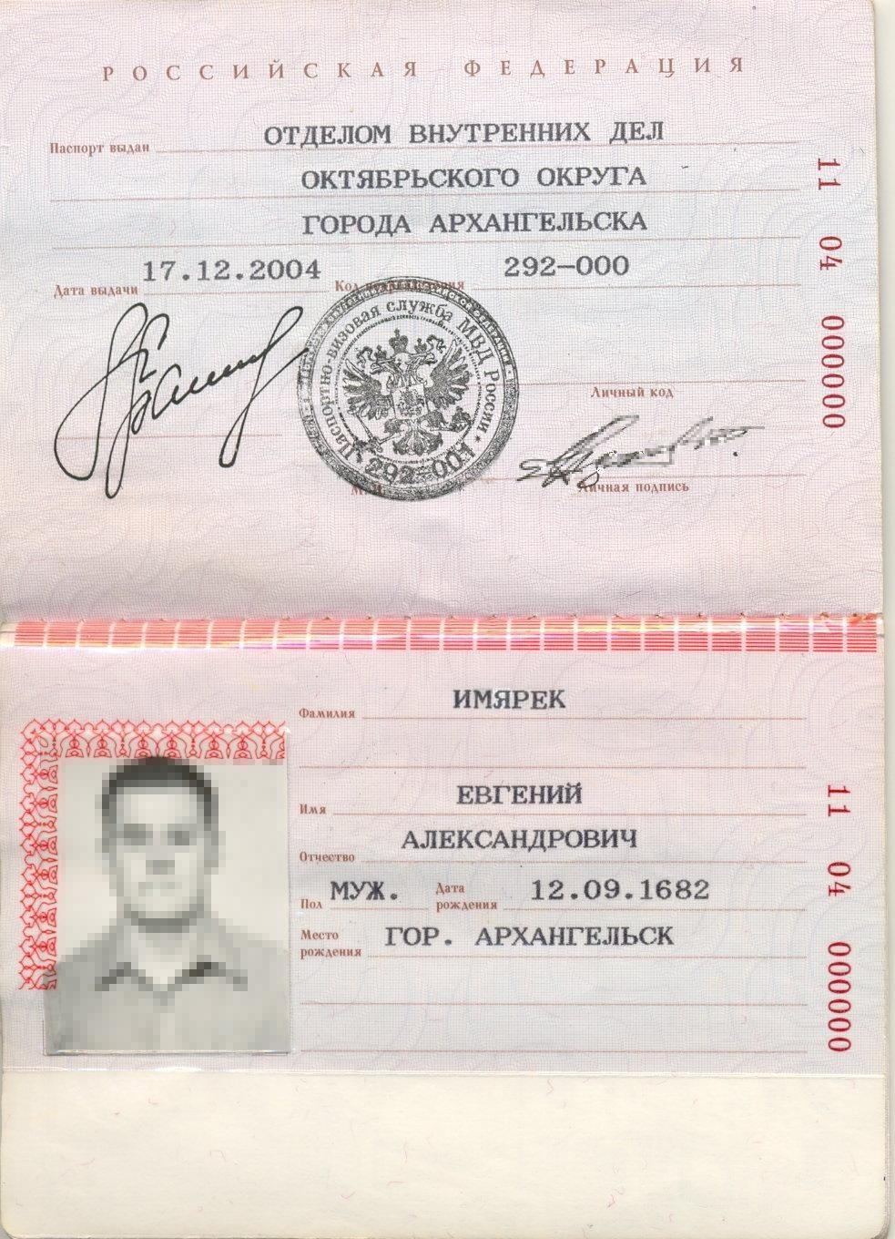 Russian passport (inside). Given by Oktjabrskij District of Arkhangelsk City Department on 2004-12-17 to Yevgeni Aleksandrovich Imyarek. Gender: male; date of birth: 1682-09-12; residence: Arkhangelsk. "Aleksandrovich" is a patronym, "Imyarek" is a placeholder family name.